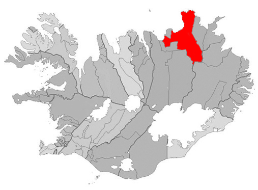 Based on Municipalities of Iceland.png.